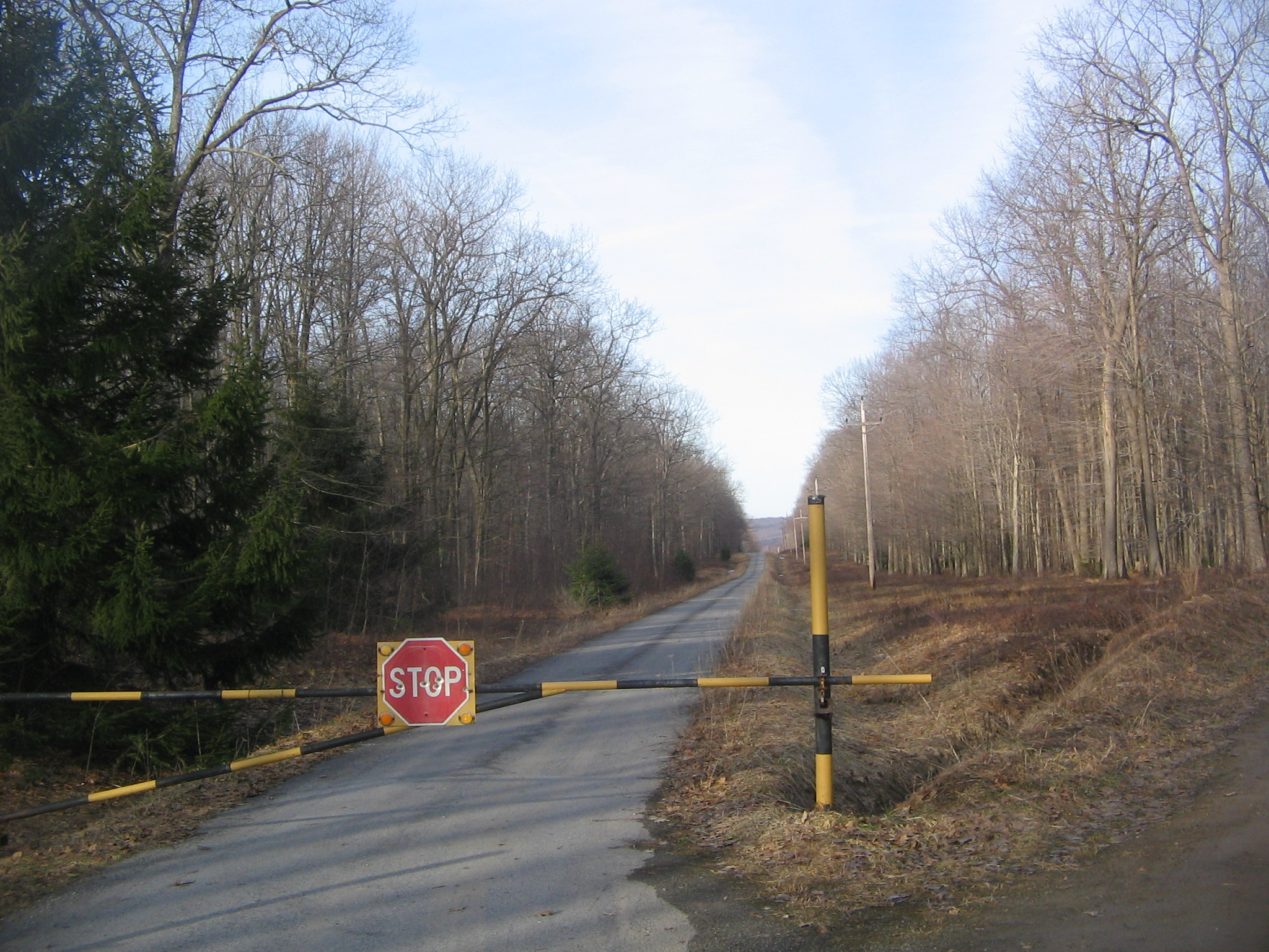 Reactor Road Gate in Quehanna Wild Area, Clearfield County, Pennsylvania, USA